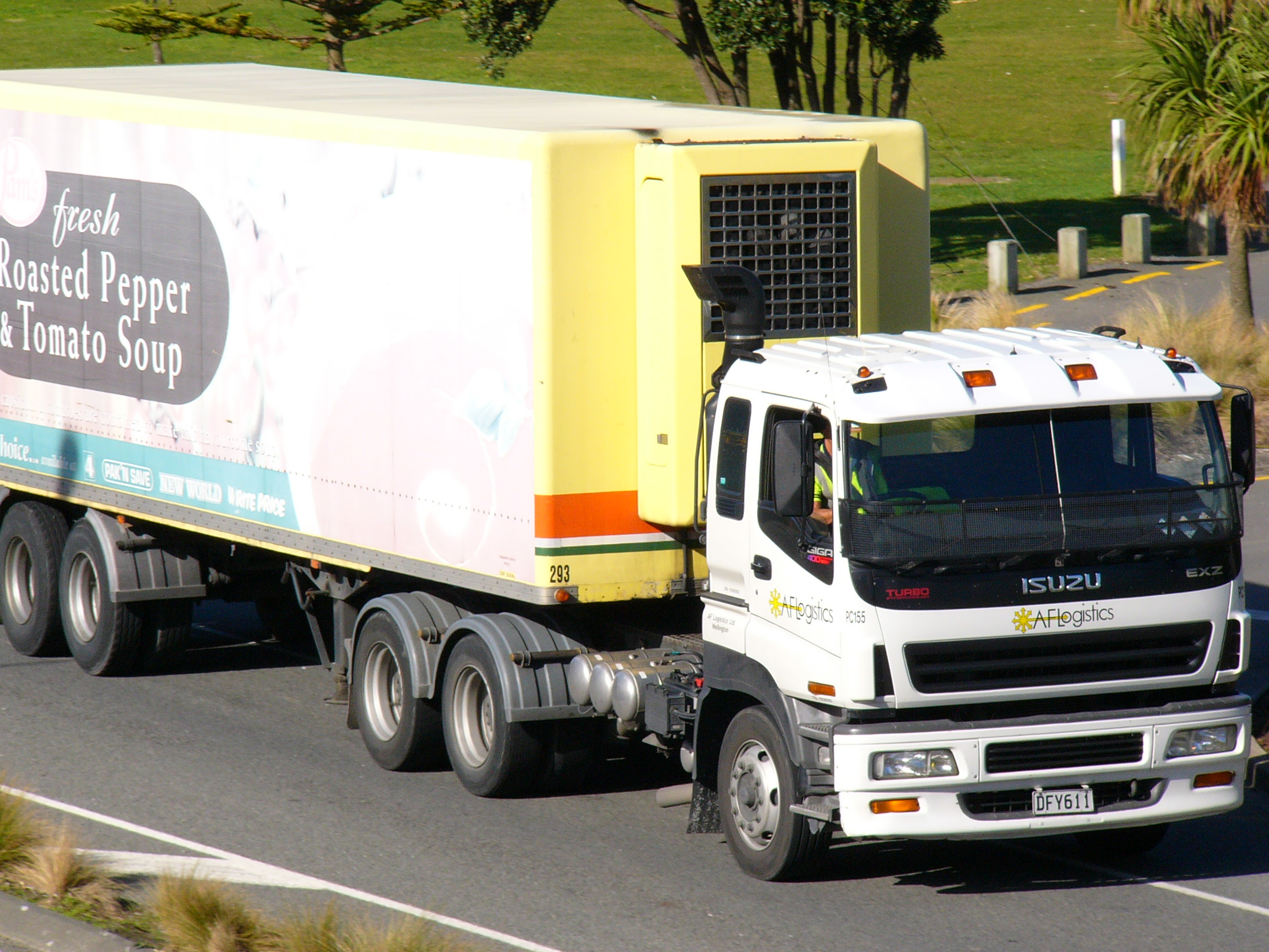 New Zealand Trucks